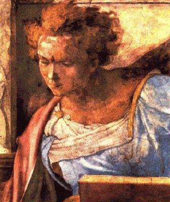 Prophet Daniel